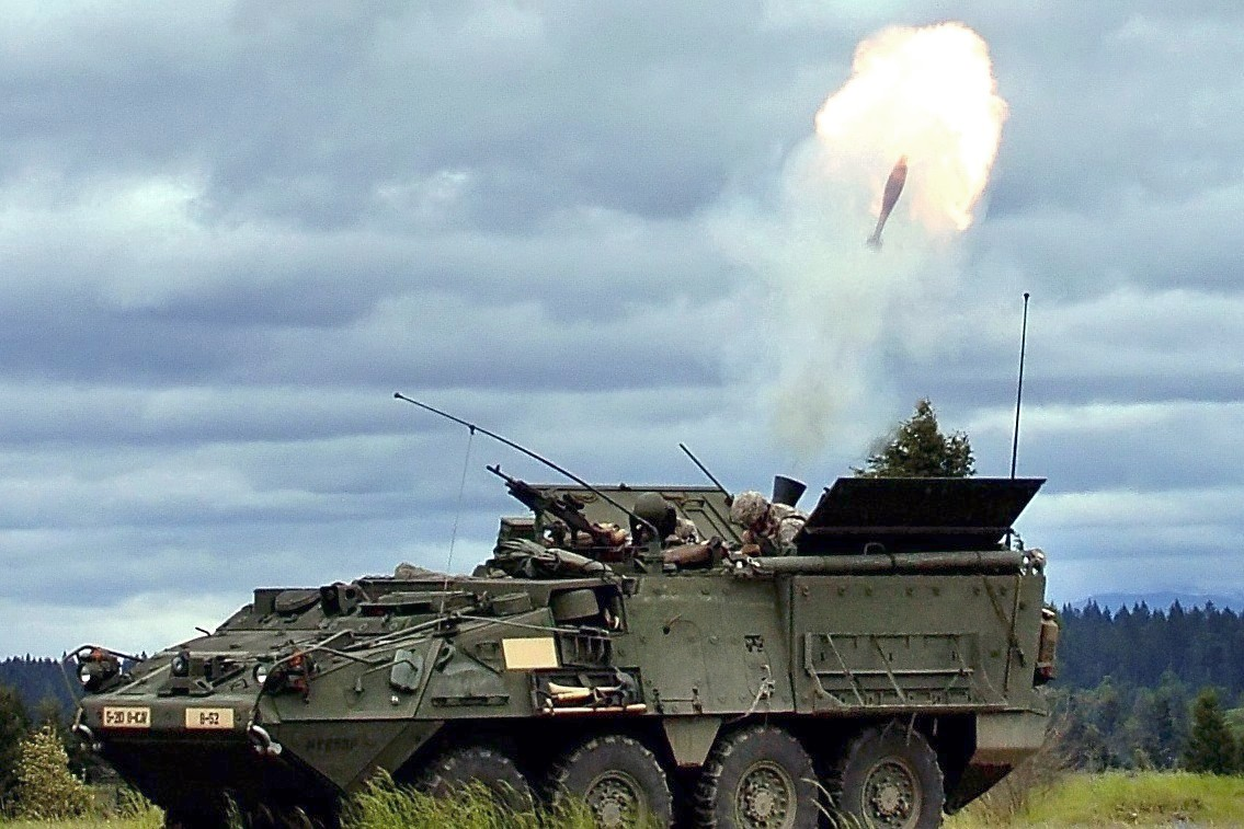 U.S. soldiers fire 120mm mortars from their Stryker MCV-B during crew certification at Fort Lewis, Wash., May 30, 2008. The soldiers are assigned to 8th Squadron, 1st Cavalry Regiment.